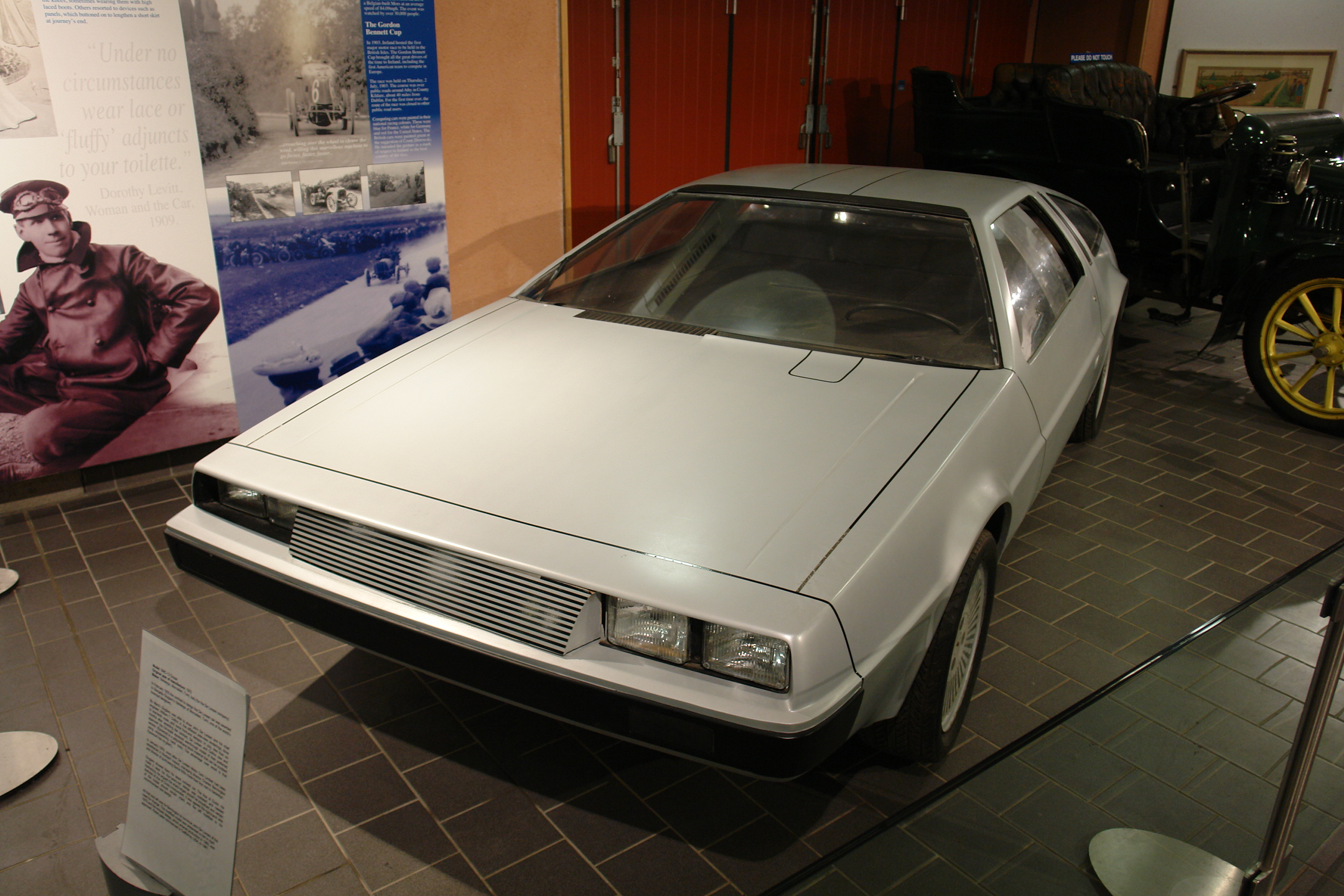 Ulster Transport Museum, Cultra, DMC-12 Coupe clay model of Italdesign, Moncalieri, Turin for the De Lorean Company, 1975